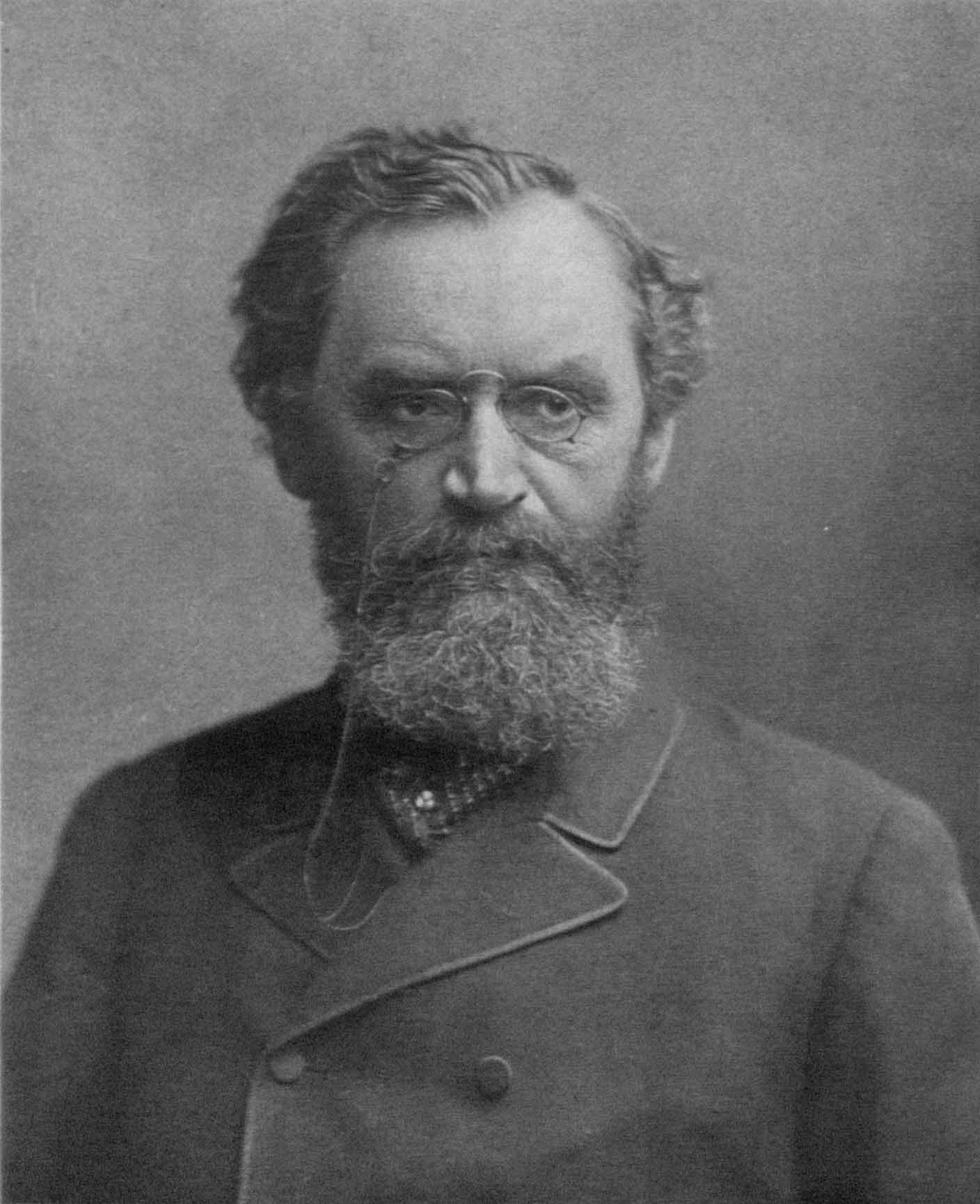 Black and white bust portrait photograph of Carl Schurz from the program for his 70th birthday banquet by the German-American community in New York City on March 8, 1899, at Liederkranz-Halle.